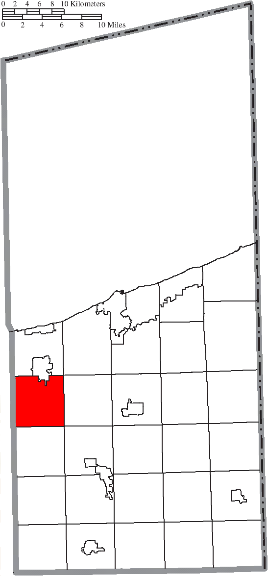 Map of the municipal and township boundaries of Ashtabula County, Ohio, United States, as of the 2000 census, with the location of Harpersfield Township highlighted. Township borders are shown only in unincorporated areas in order to differentiate incorporated and unincorporated areas more clearly.